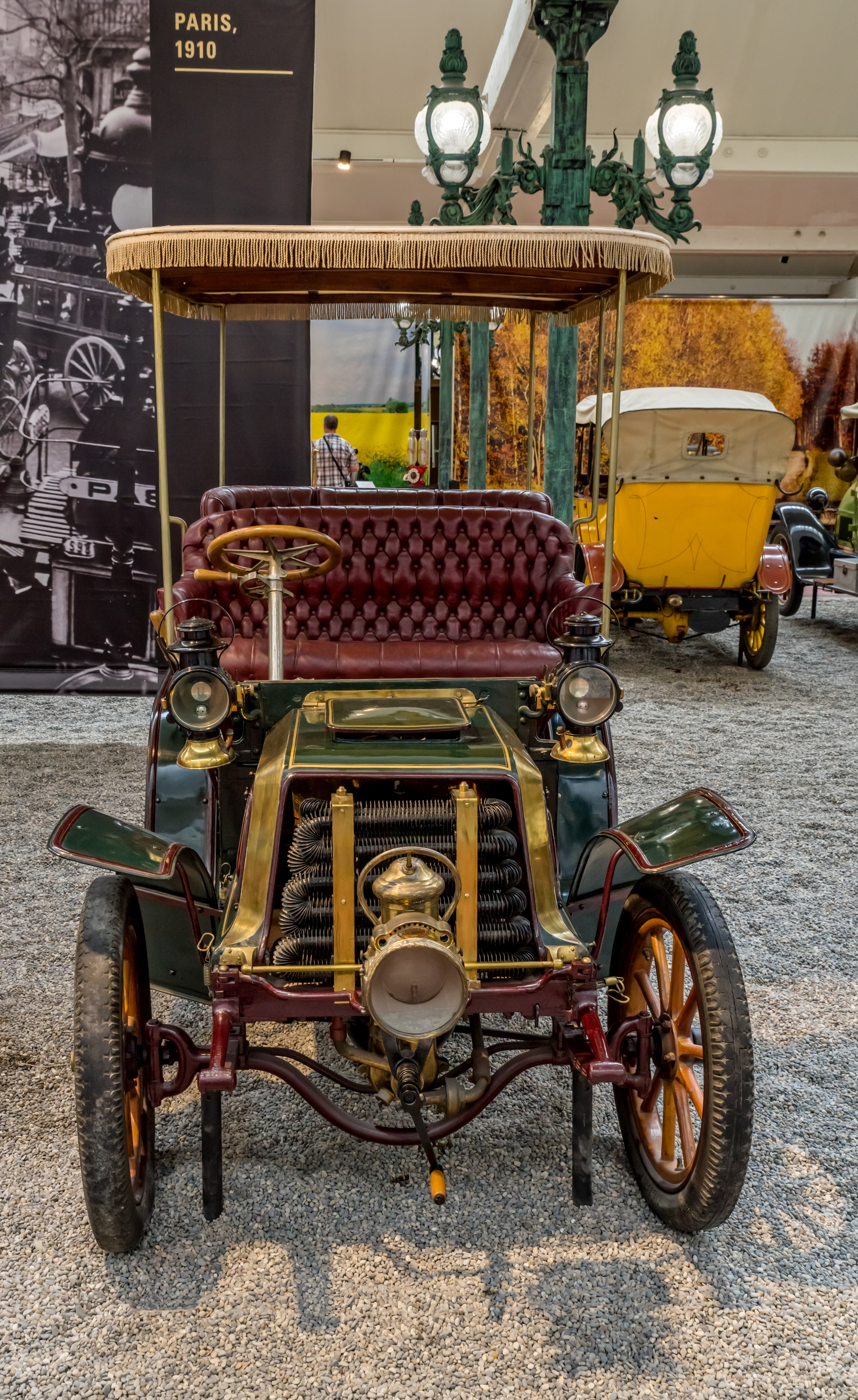 pictures from the Cité de l’Automobile – Musée National – Collection Schlump in Mulhouse, France ptictures from the 10. may 2018